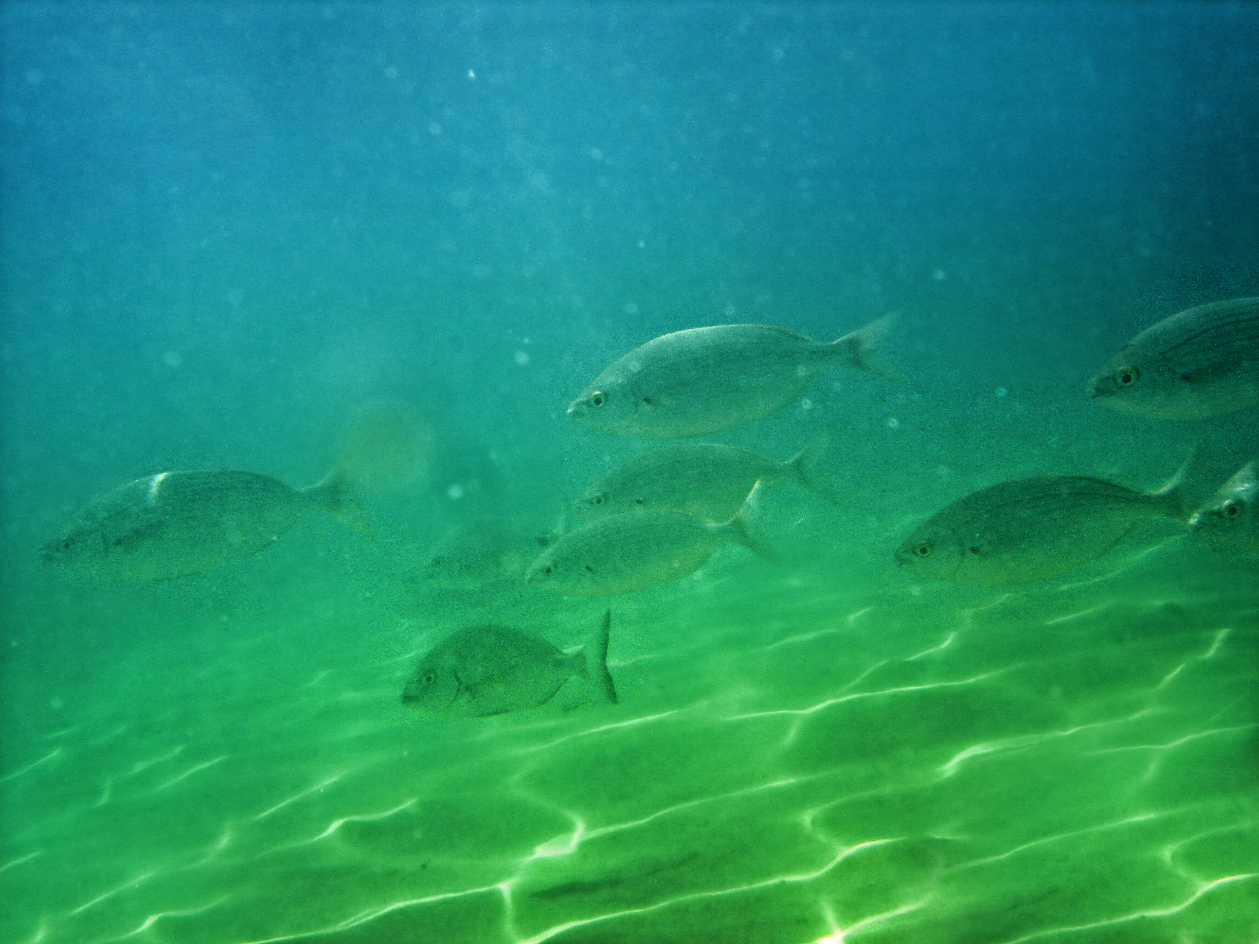 Sarpa salpa and Diplodus in submarine depths of the Las Canteras Beach (Las Palmas de Gran Canaria). Gran Canaria, Canary Islands. Spain.